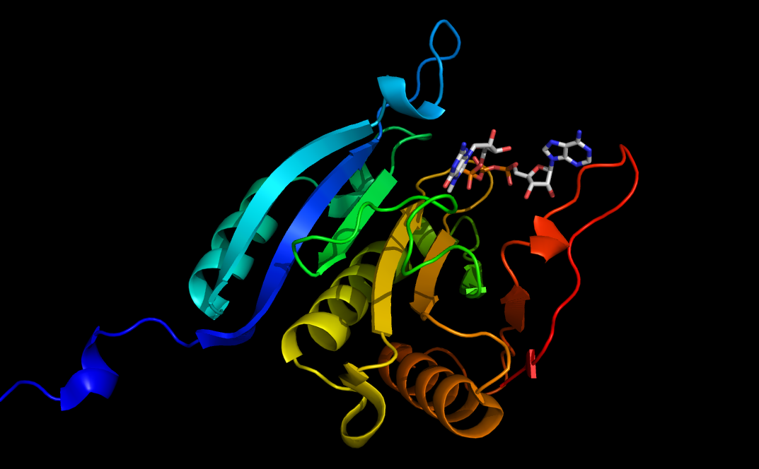 Structure of initiation factor eIF4E bound to the 5'-cap of mRNA. Generated from the PDB entry 1ipb.